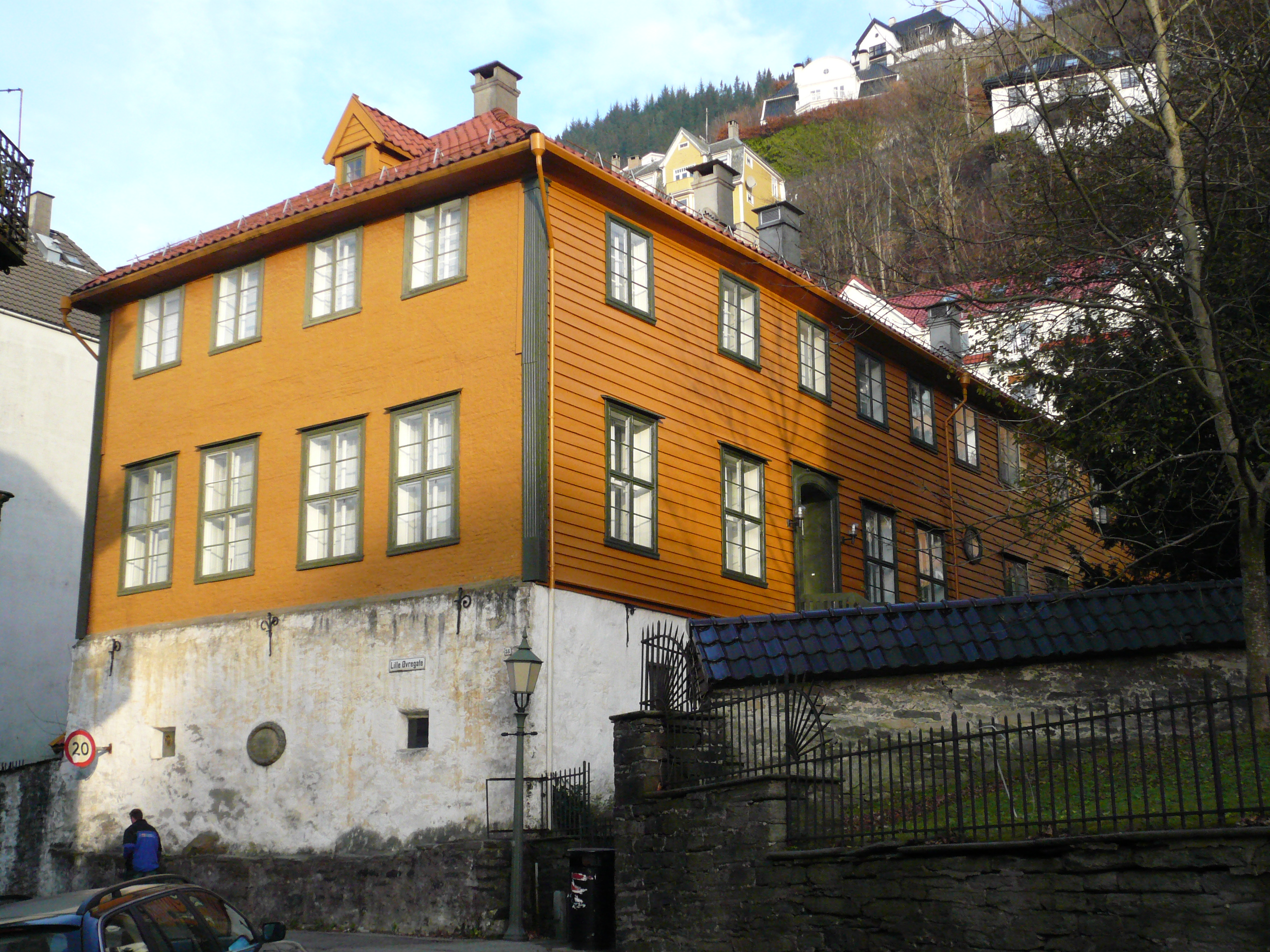 Latinskolen, Bergen, Norway